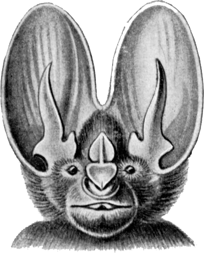 Lesser False Vampire Bat